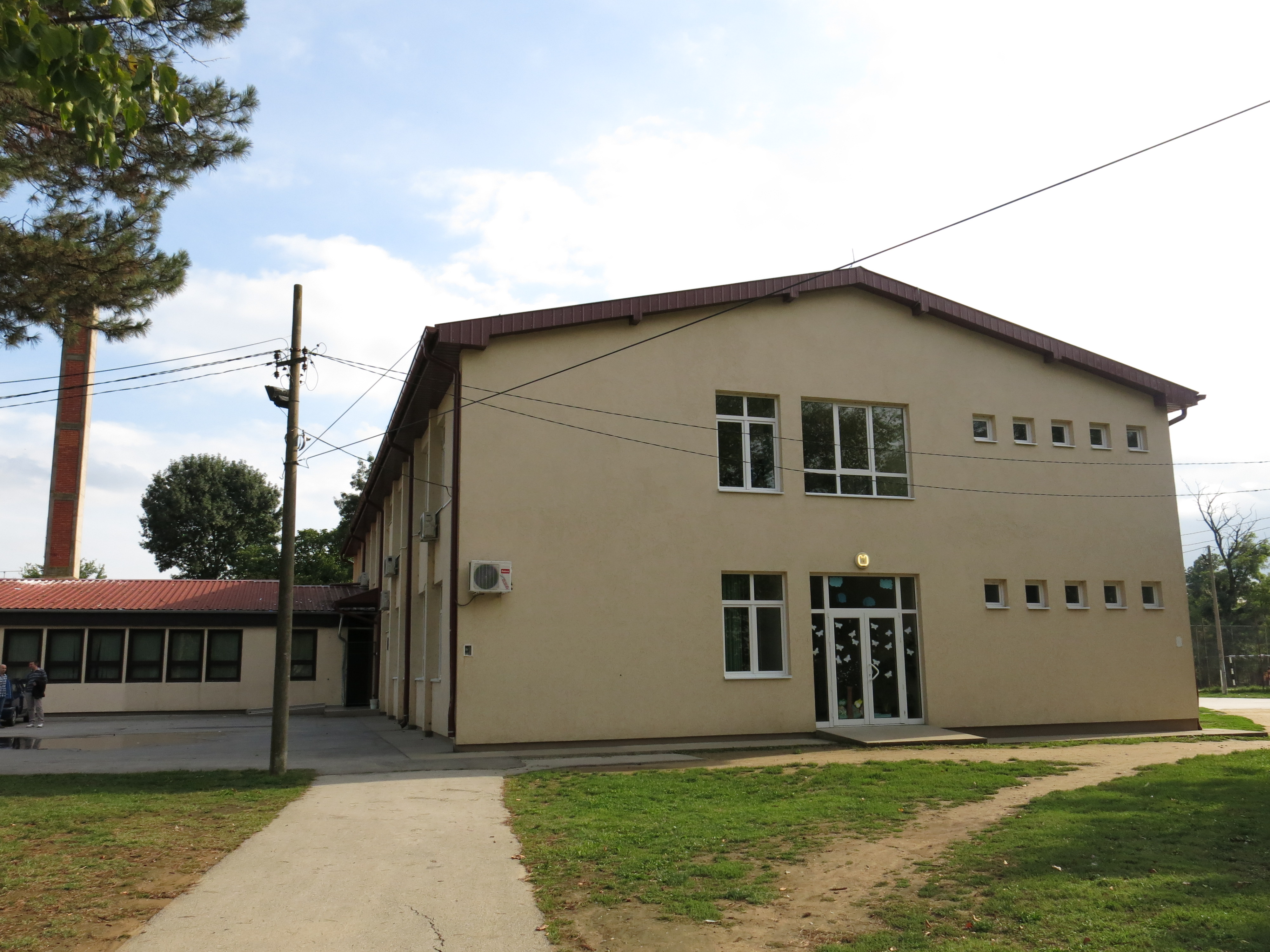 Elementary School Ljubiša Urošević in Ribare, Jagodina, Serbia